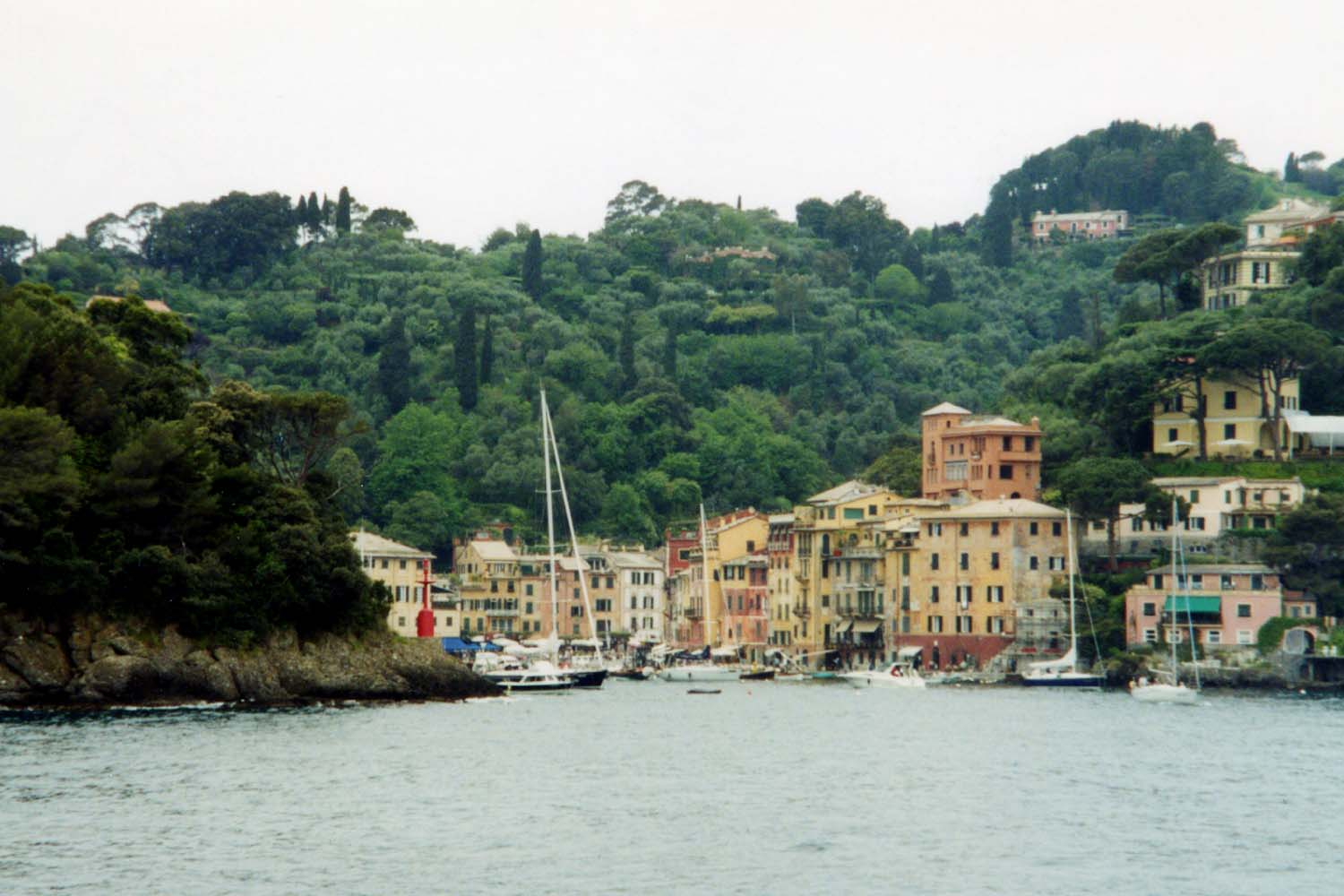 Portofino seen from the sea